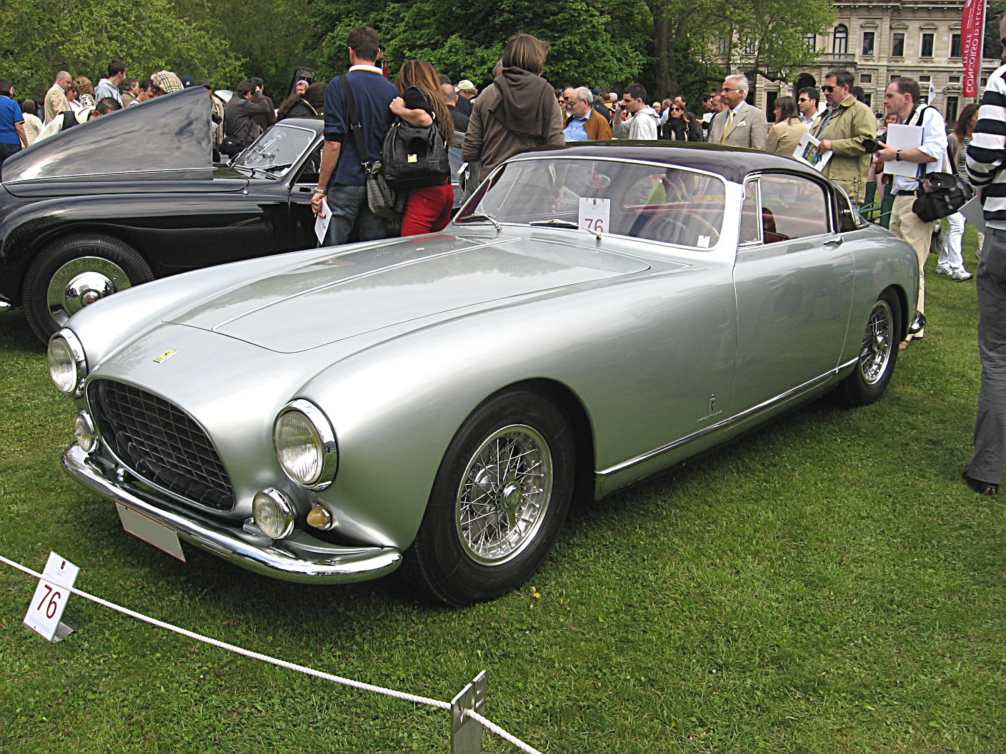 Subject: Ferrari 250 Europa Date:April 27th, 2008 Event:Concorso d’Eleganza”Villa d’Este” 2008 Place/Country: Cernobbio (CO), Italy I release all rights in the public domain.